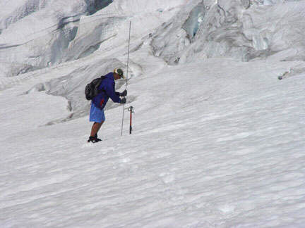 Measuring snowdepth on Easton Glacier, North Cascades, WA (Pelto